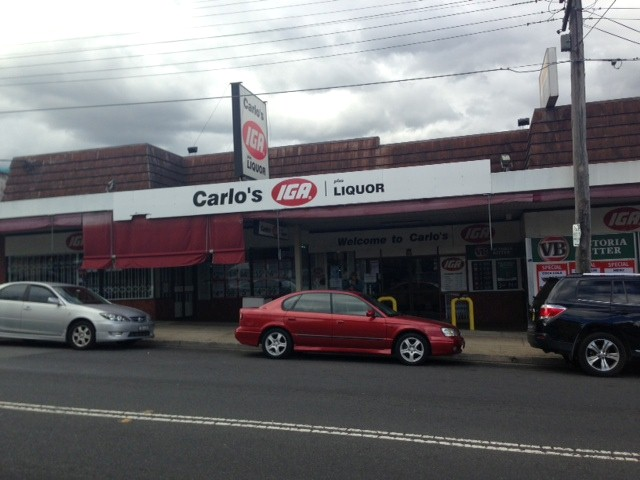 A picture of Auburn Road Birrong